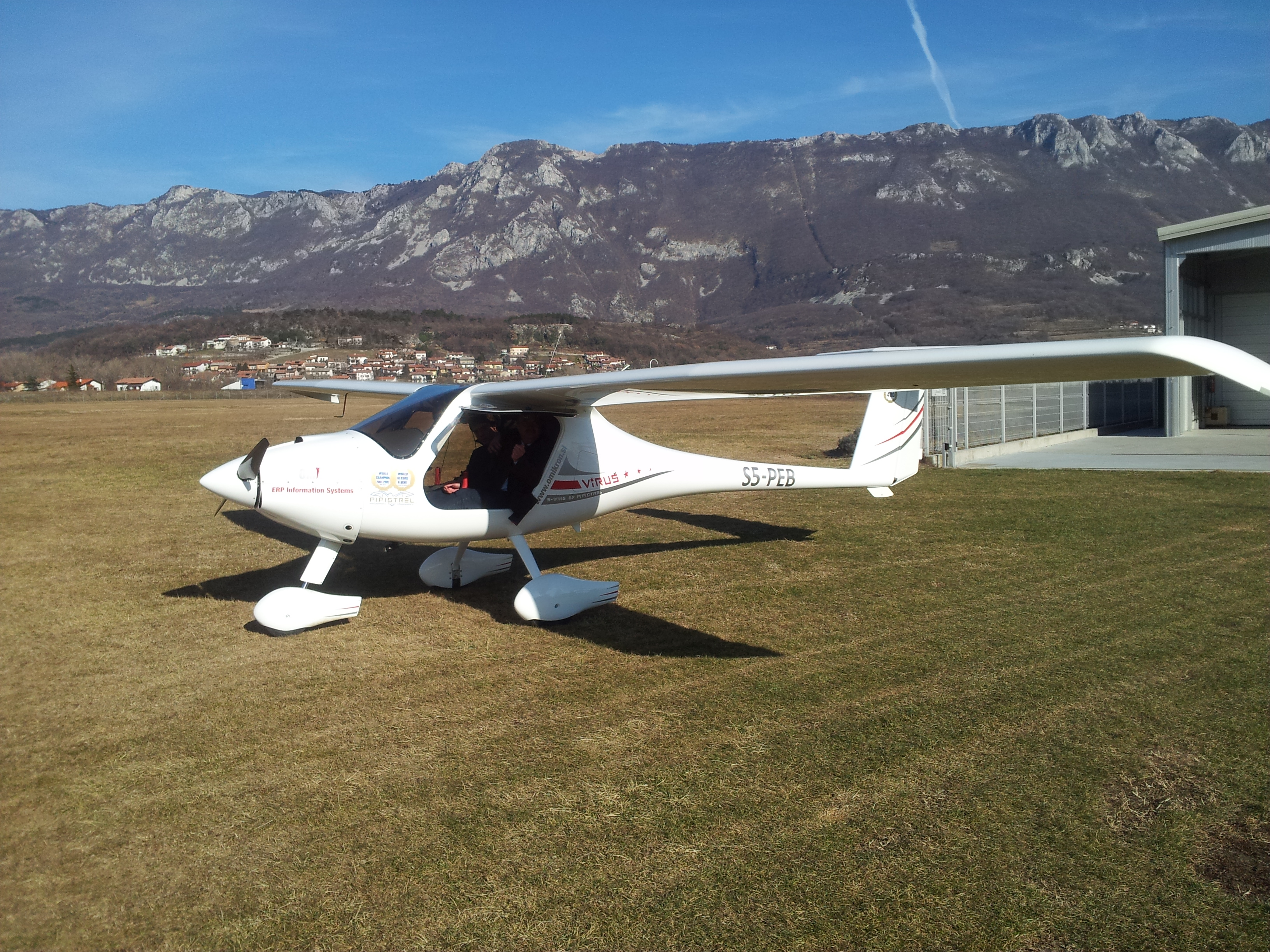 Pipistrel premises - Slovenia, Ajdovscina